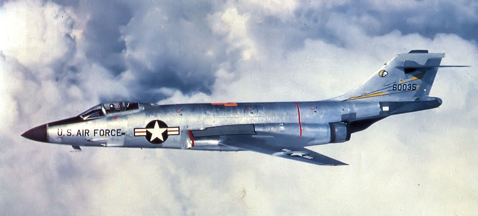 92d Tactical Fighter Squadron - McDonnell F-101C-55-MC Voodoo - 56-035